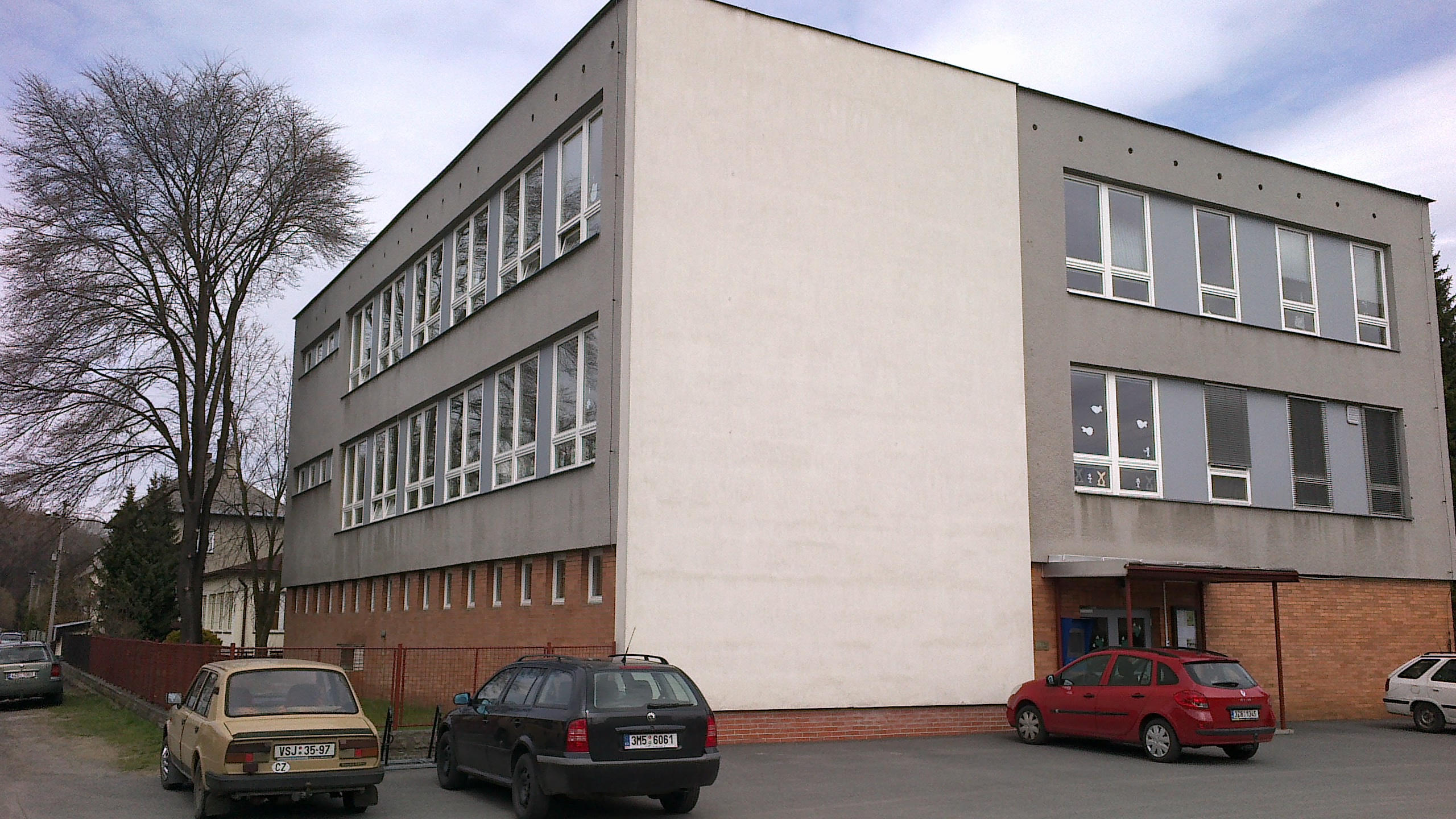 Poličná, Vsetín District, Czech Republic. Elementary school.